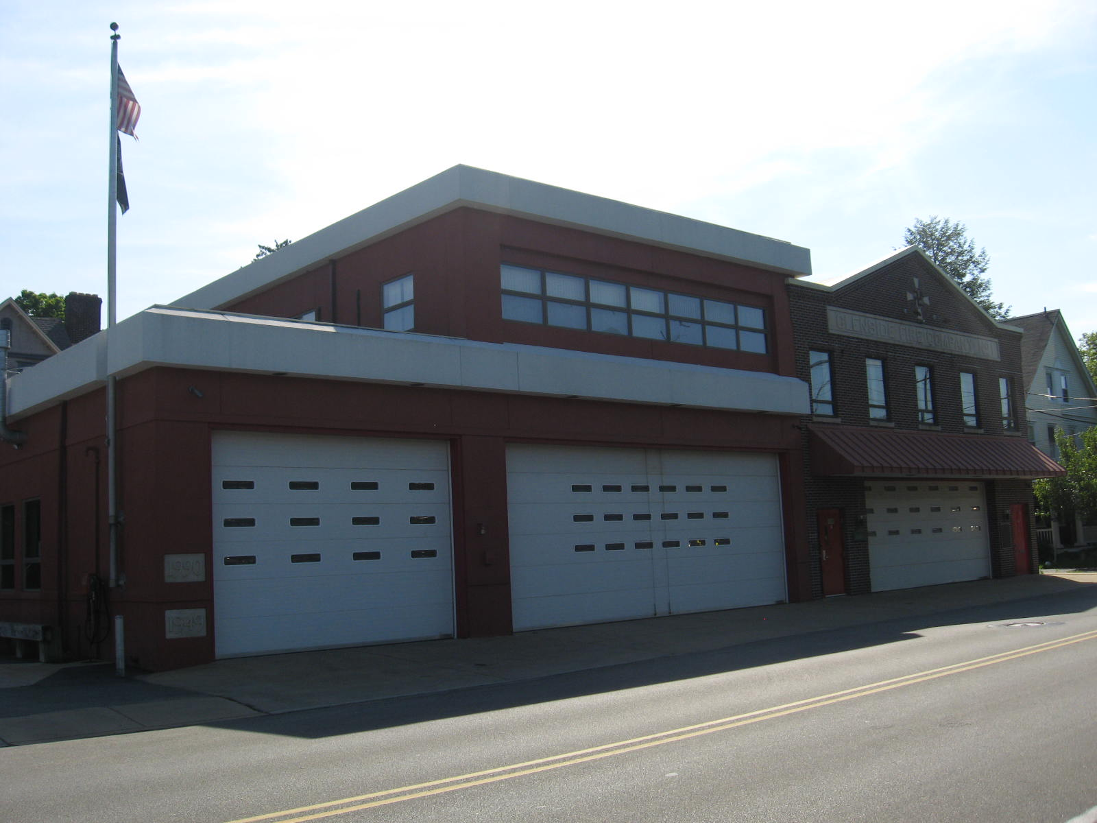 Glenside Fire Company No. 1